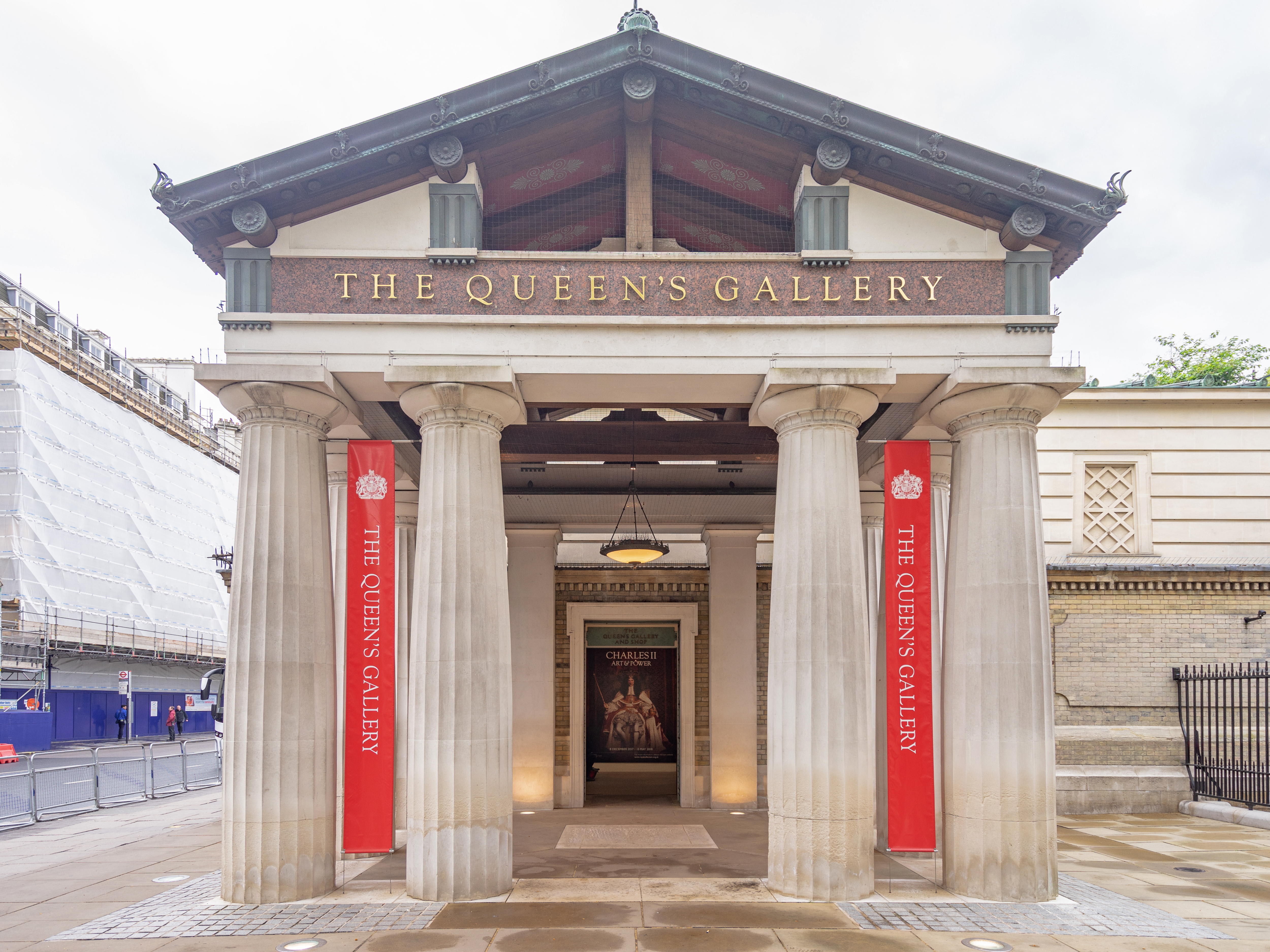 The Queen's Gallery (straightened and cropped)